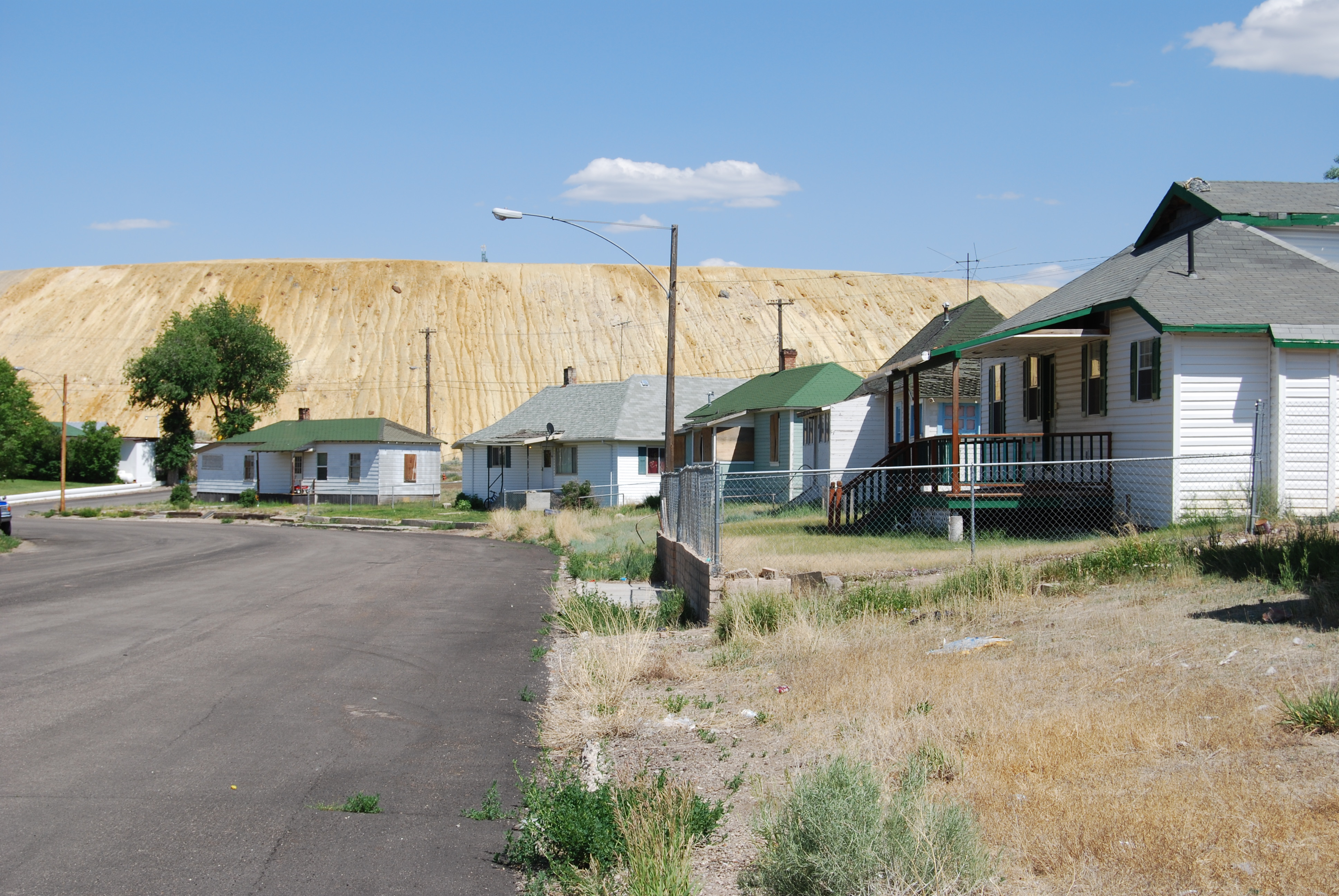 Company houses in Ruth, Nevada.